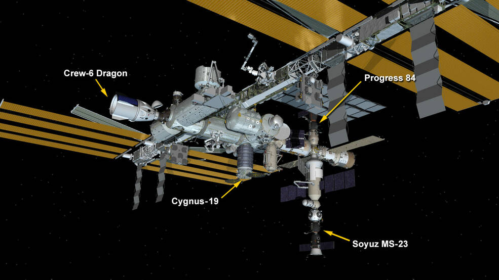 International Space Station Configuration. Four spaceships are attached to the space station including the HTV-9 resupply ship from JAXA (Japan Aerospace Exploration Agency) and Russia's Progress 75 and 76 resupply ships and Soyuz MS-16 crew ship.